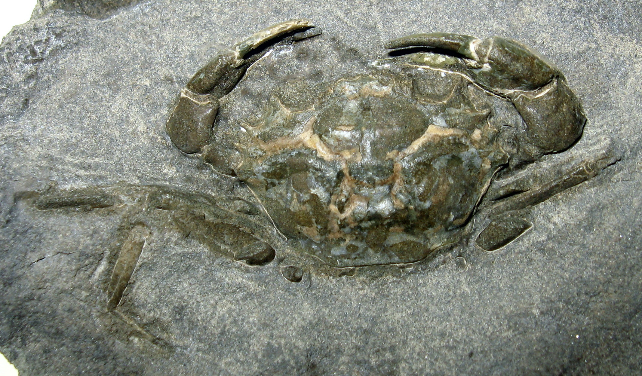 A Megokkos alaskanensis specimen with a 40 mm wide carapace. Late Eocene; Escalante Formation, Nootka Sound, British Columbia, Canada. Stonerose Interpretive Center Specimen #